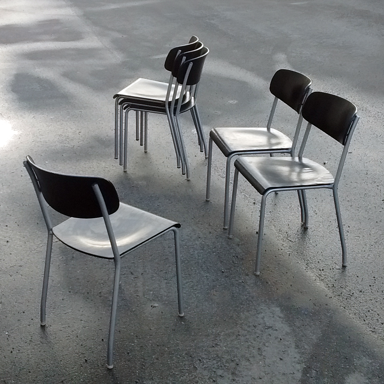 Standard-chair chosen for the universitary buildings designed by Ferdinand Kramer.